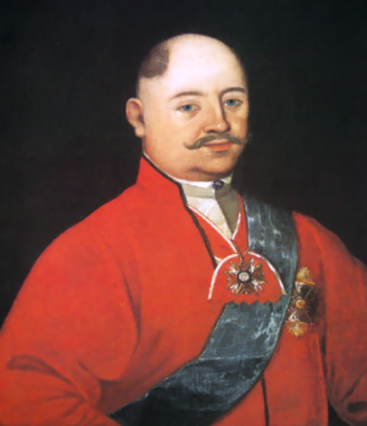 Kajetan Hryniewiecki